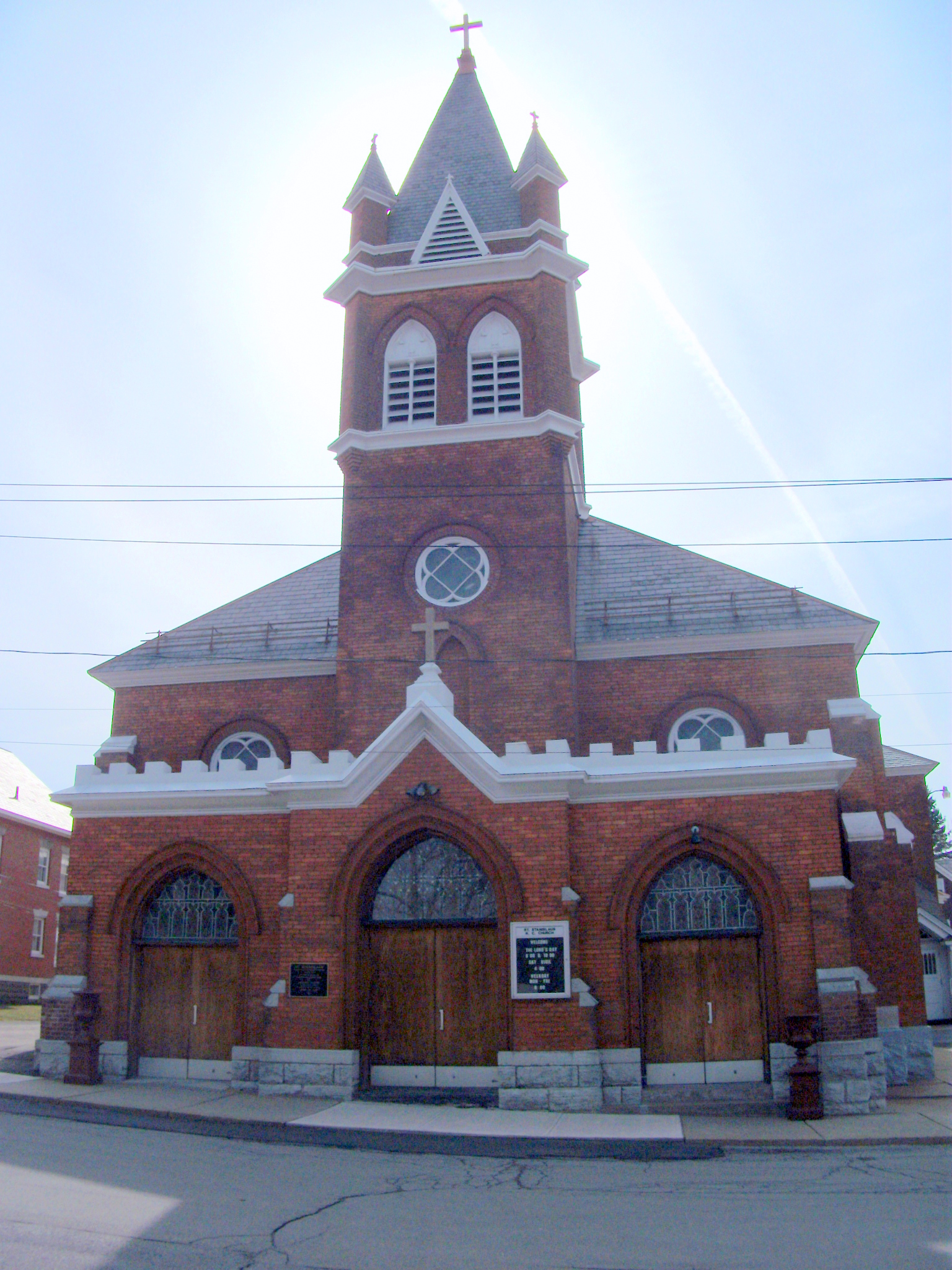 Saint Stanislaus Roman Catholic Church, Amsterdam NY, April 2011